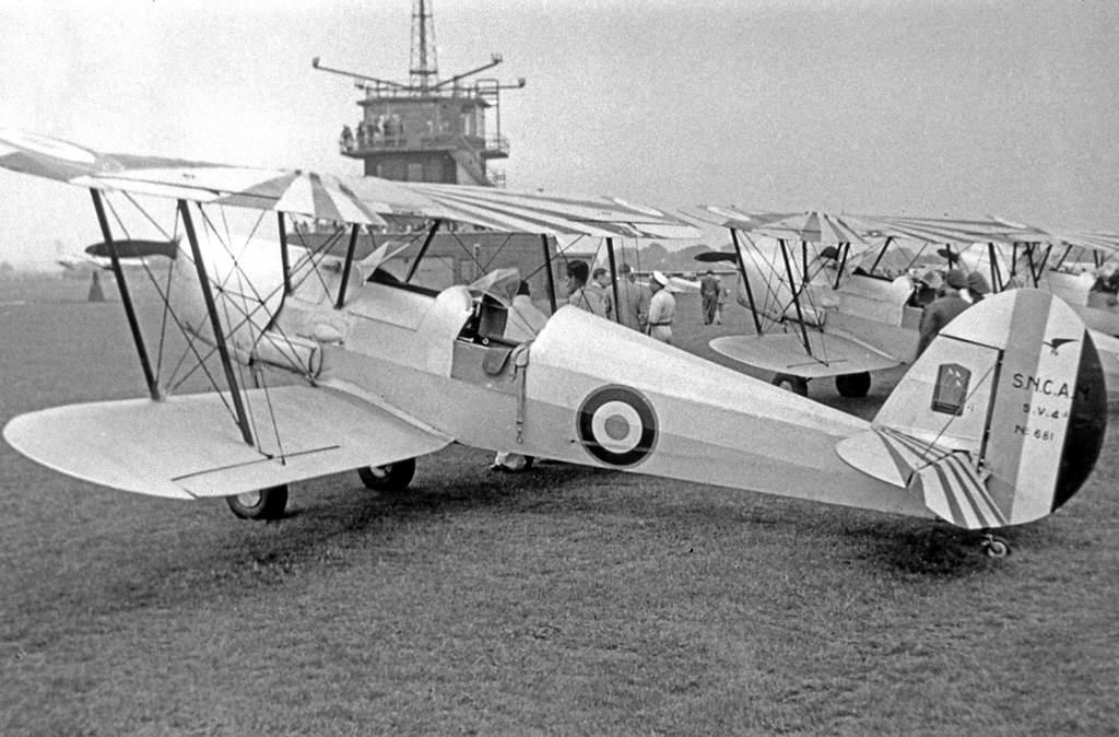 Stampe SV4C No. 681 of the French Patrouille de France team at Manchester Barton in 1951